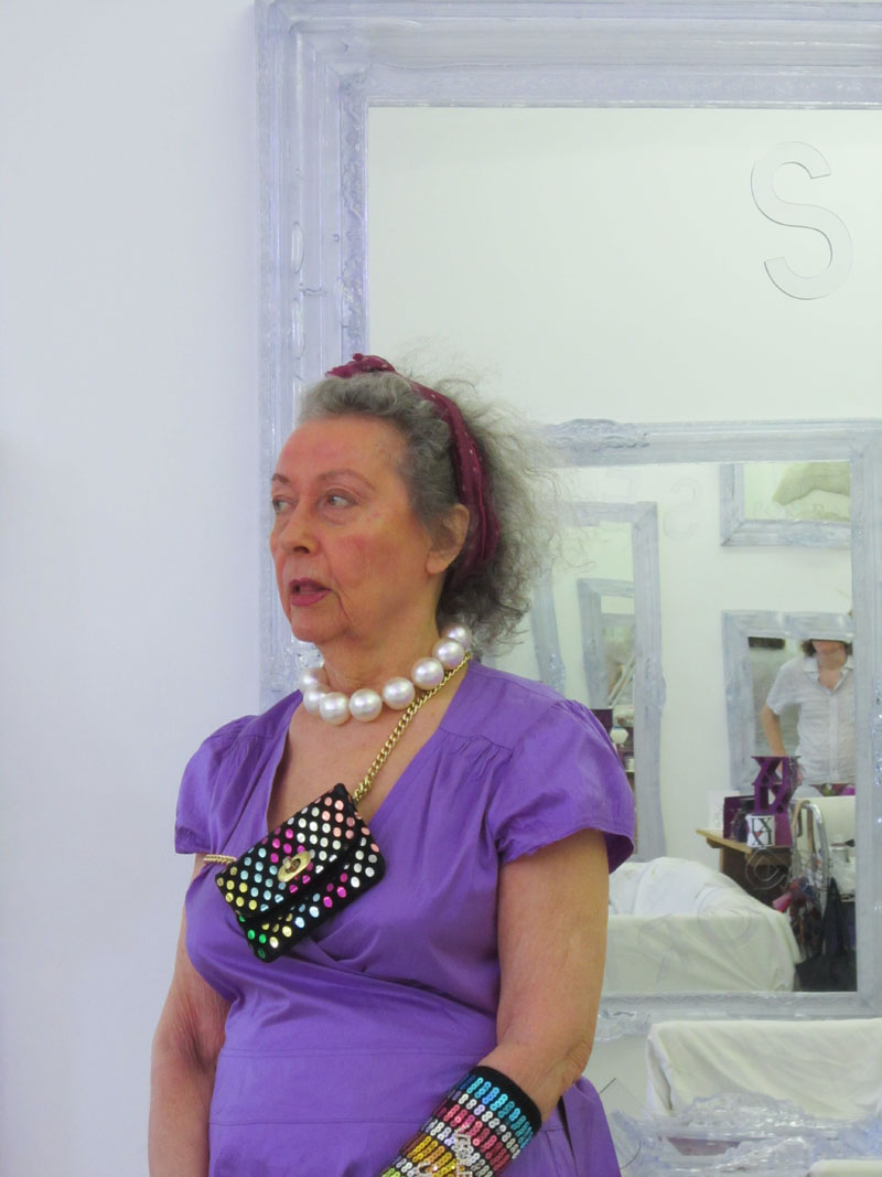 From photo session with Ultra Violet (Isabelle Collin Dufresne) in her New York City studio. Taken for painting her portrait, August 2012.